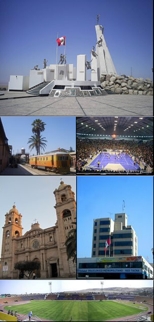 A montage of Tacna, Peru.